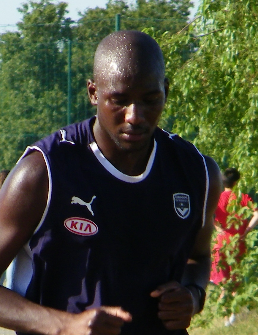 Alou Diarra